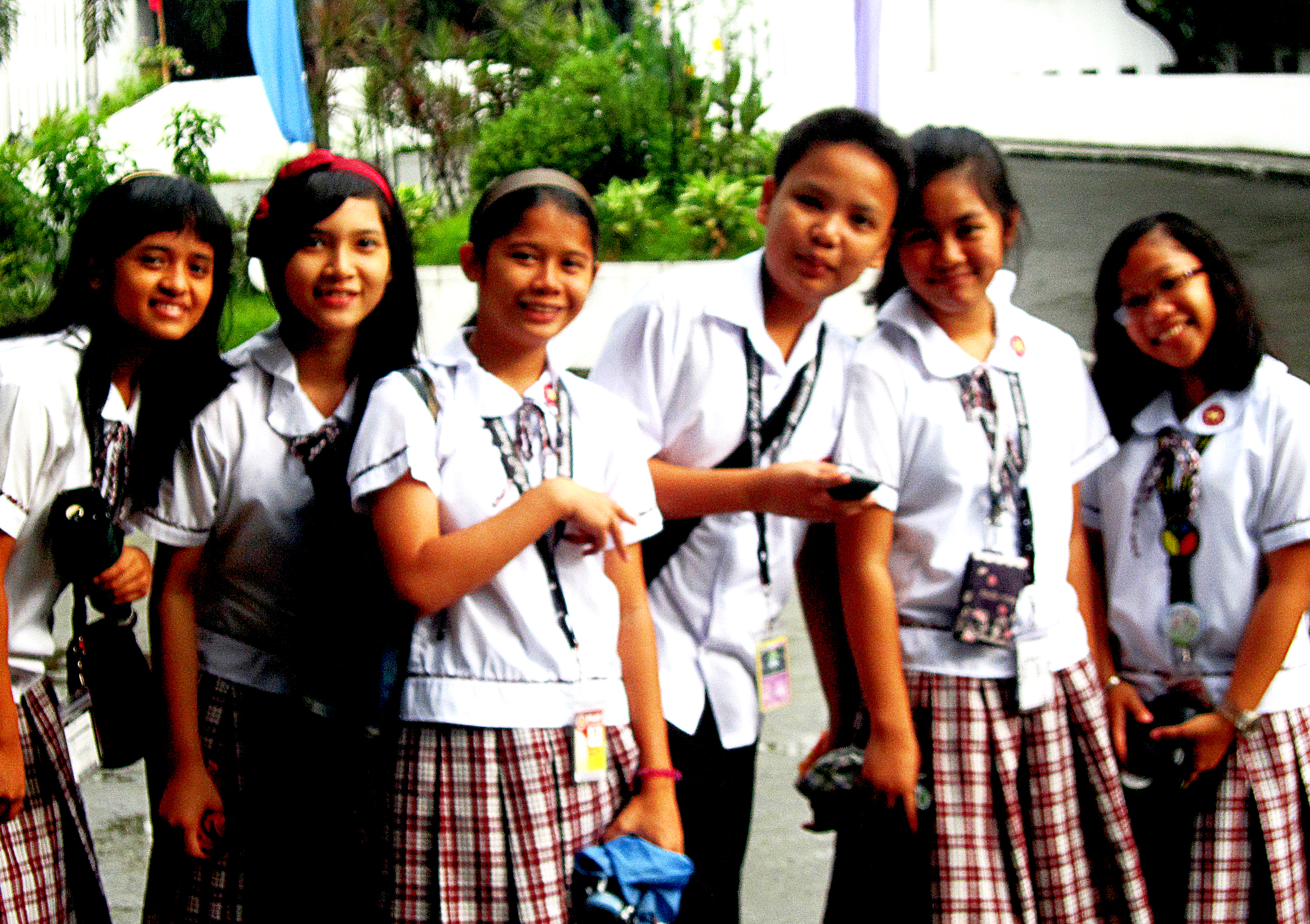 The students of the Polytechnic University of the Philippines Laboratory High School